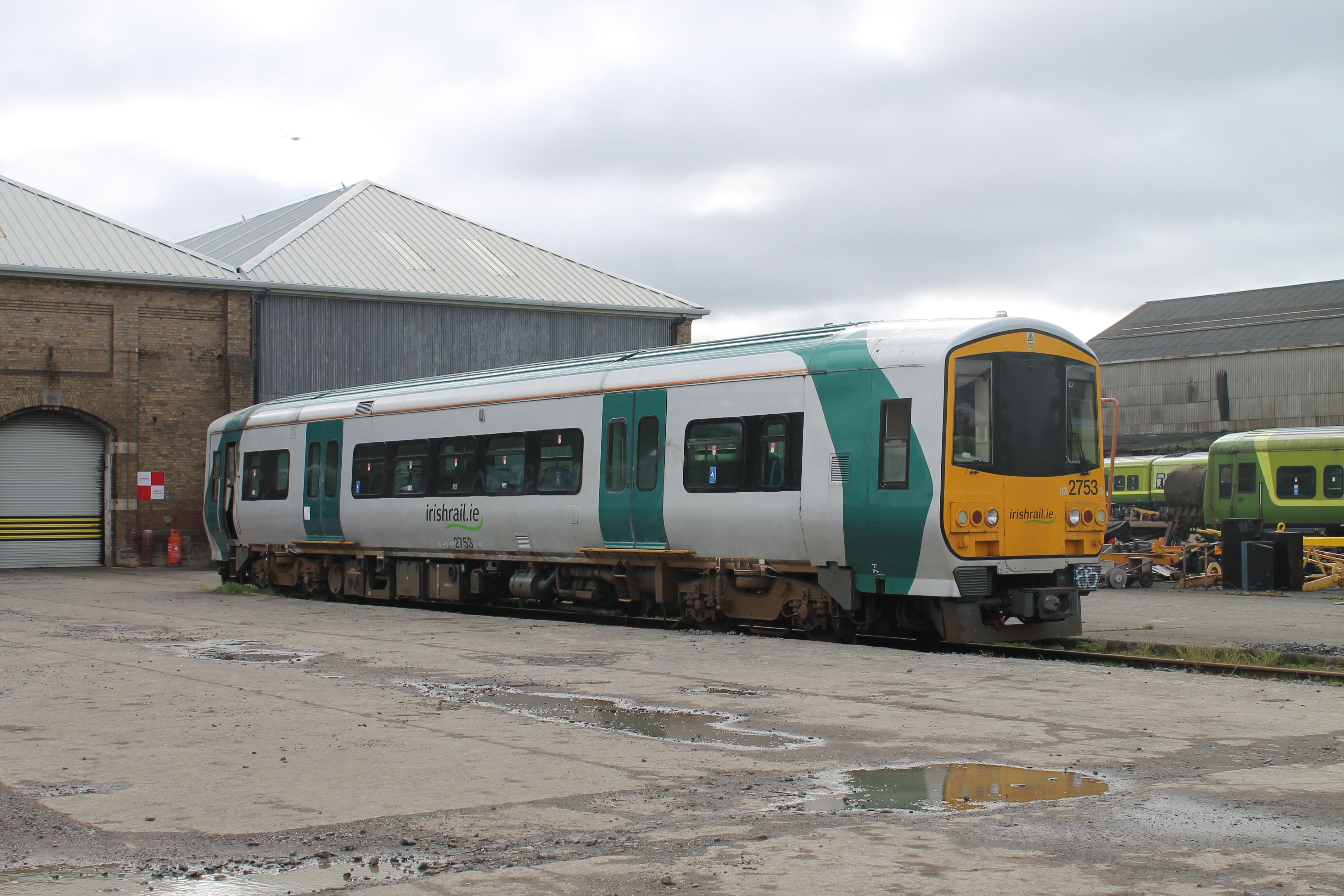 Stored 2700 class DMU's at Inchicore. 07/04/2016